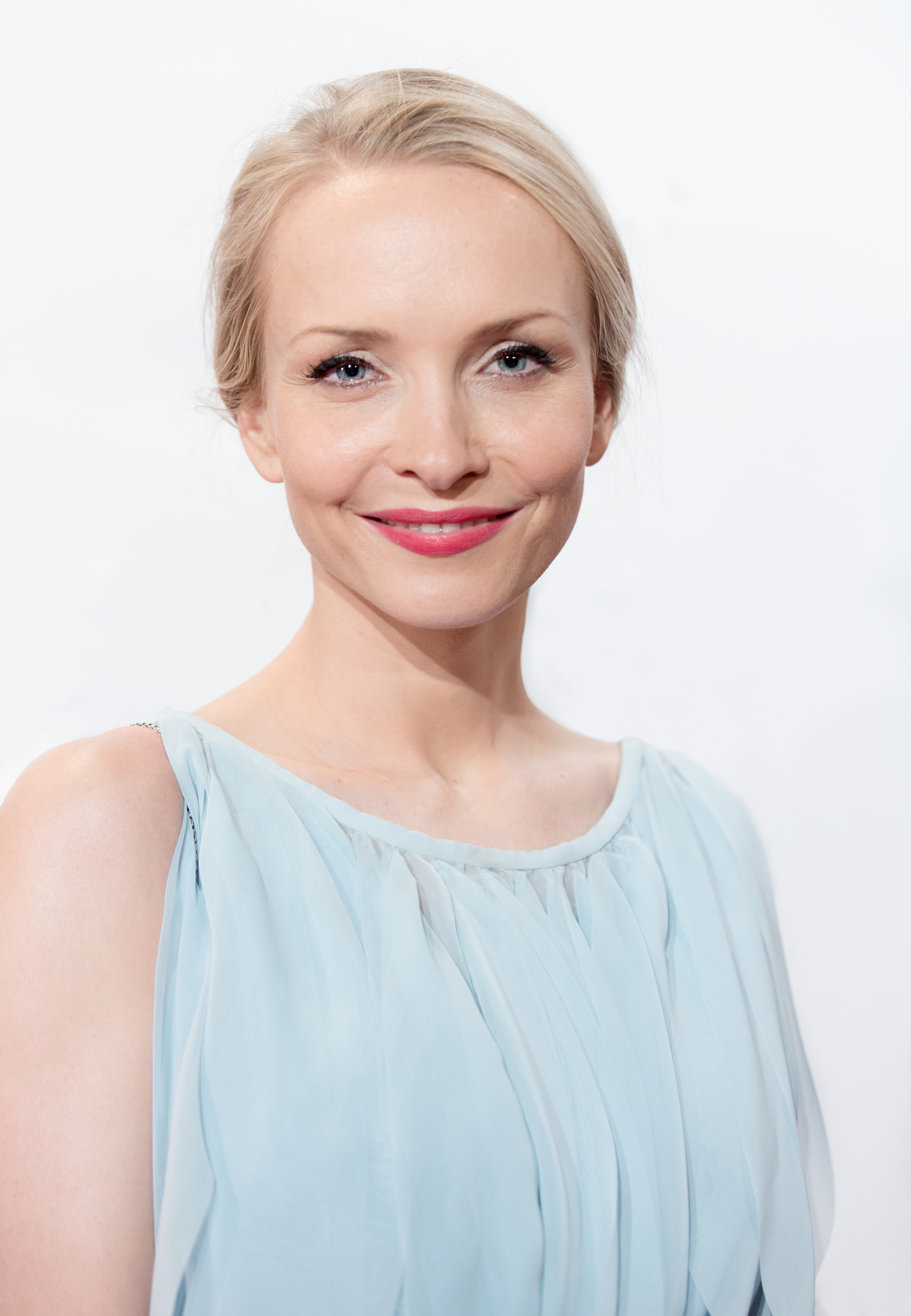 Janin Reinhardt on the red carpet of the Filmball Vienna 2016 at Rathaus, Vienna, Austria.